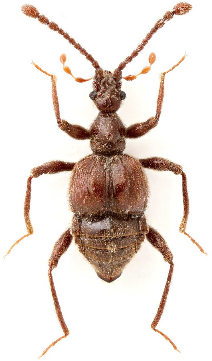 Habitus of Megatyrus schuelkei, male.